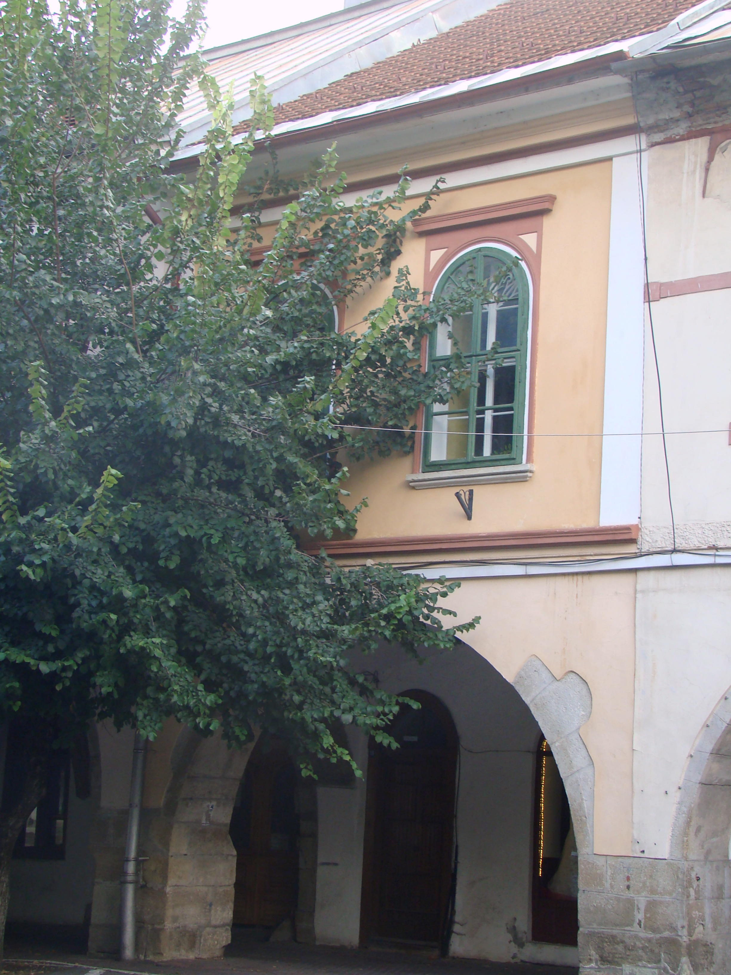 Houses, historic monuments, in Bistrița, Piața Centrală 13-24